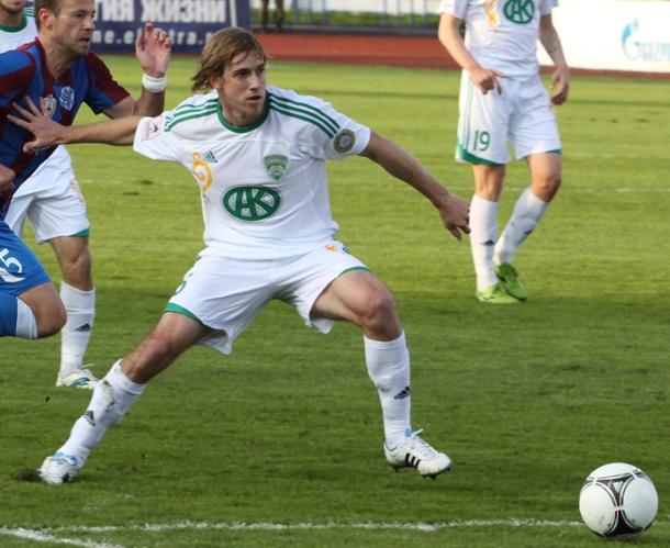 Adilson Warken with FC Terek Grozny.